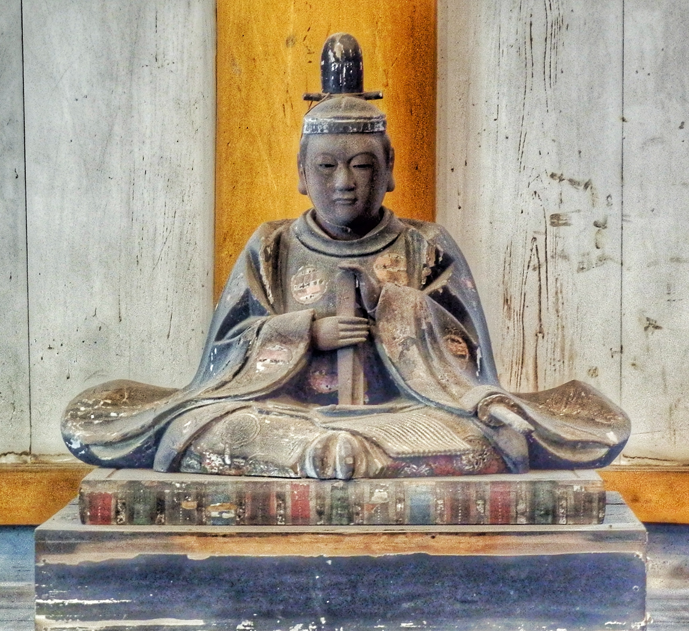 The seated figure of Ashikaga Yoshikazu, in Banna-ji, Ashikaga, Tochigi Prefecture, Japan